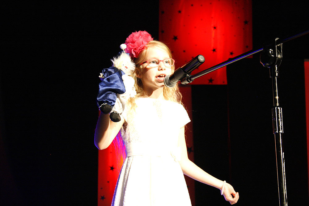 Koncert finałowy 21 Konkursu Piosenki „Wygraj Sukces” (Tarnobrzeg 11.06.2016).